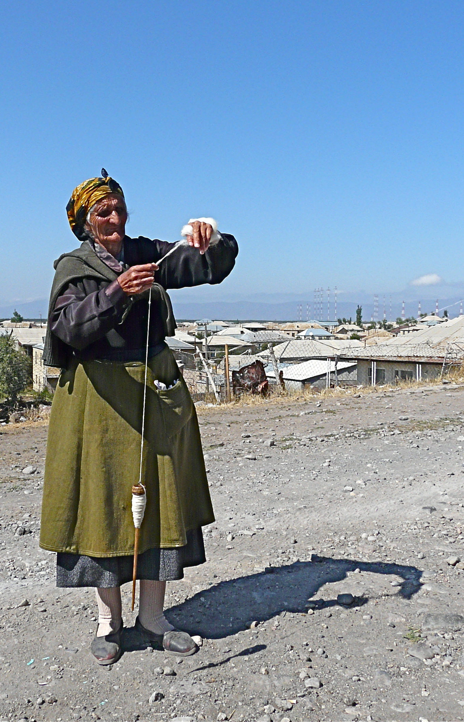 A little woman with the typical Armenian nose sheep wool to spin.